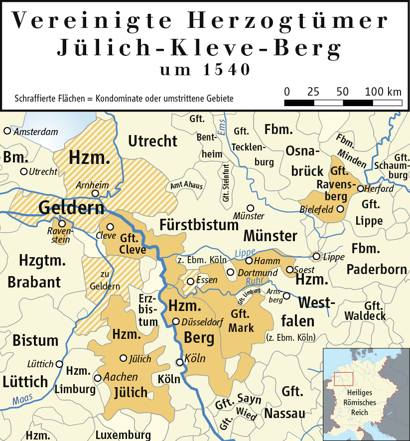 Map of the United Duchies of Jülich-Cleve-Berg in 1540.